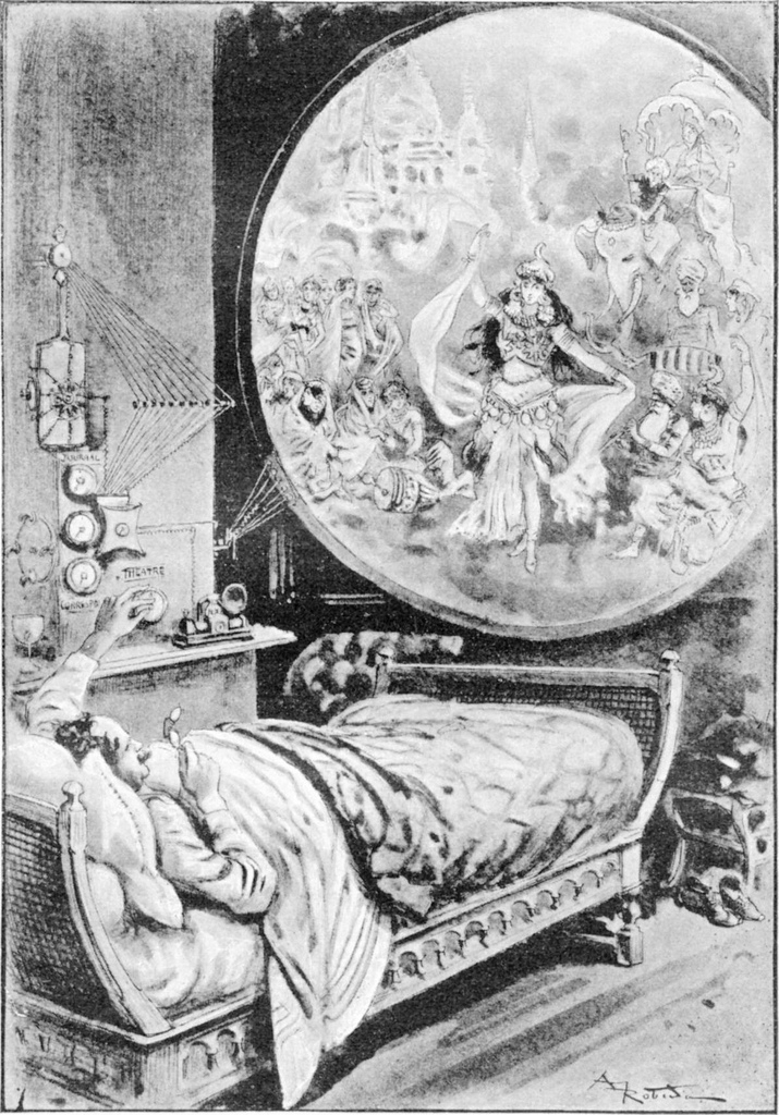 The Telefonoskopi the whole world in the immediate knowledge of any important or interesting occurrence. (Flammarion, Camille: La fin du monde)